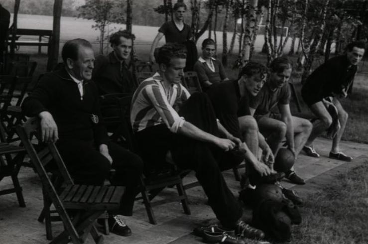 Break of the German Olympic football squad 1952